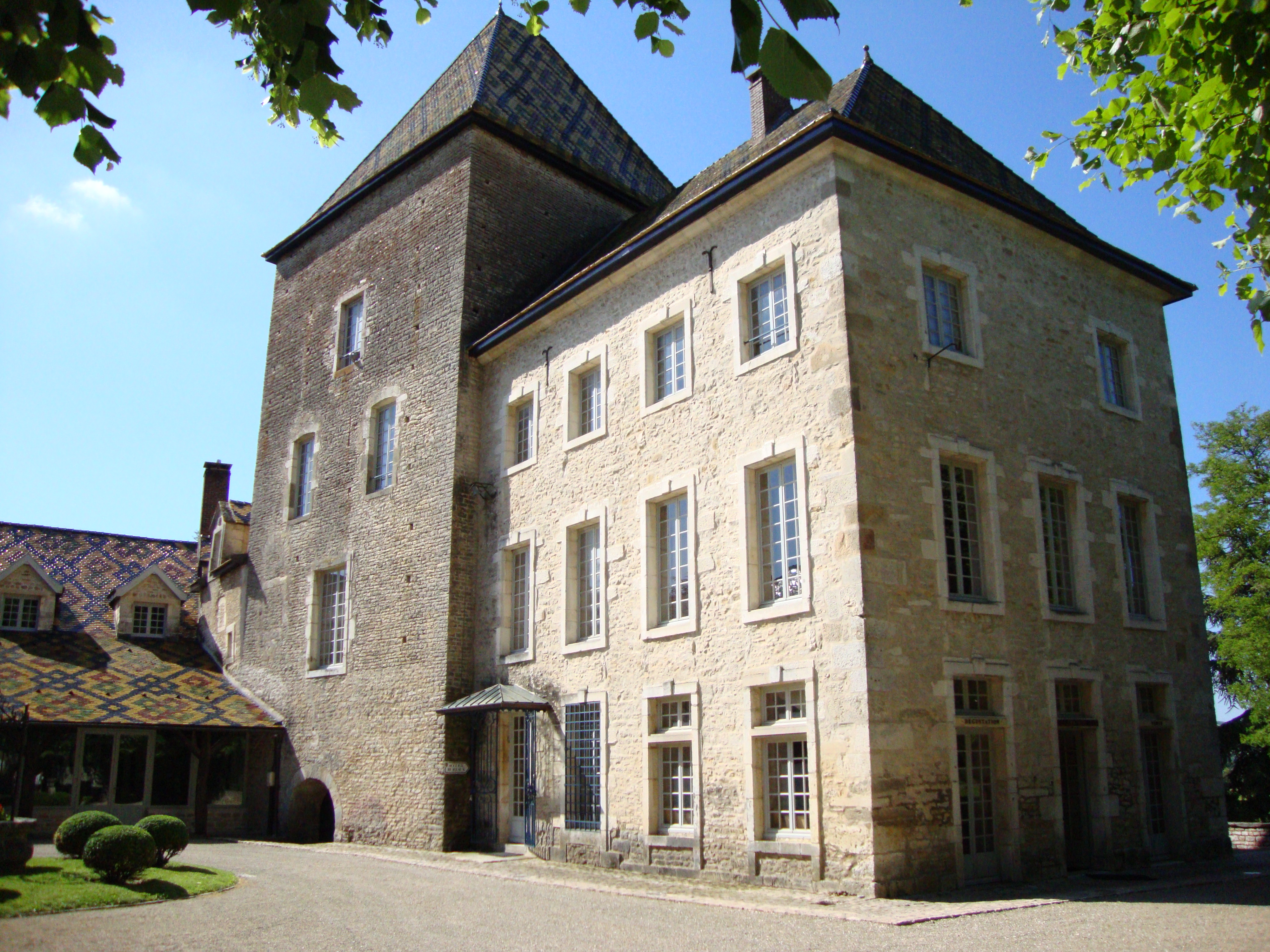 Santenay (Côte d'Or, Fr) Château Philippe Le Hardi.